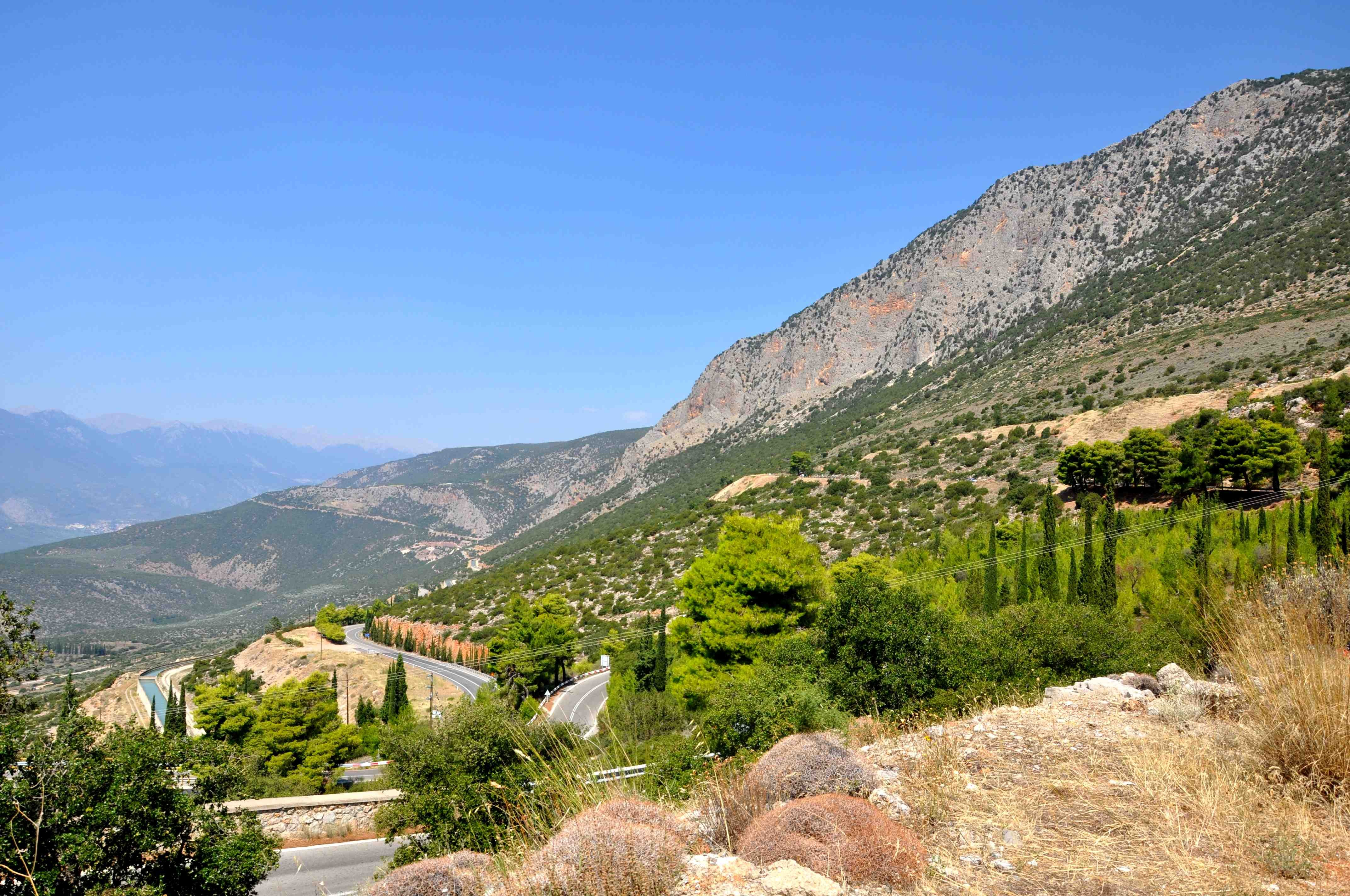 Delphi